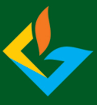 Kerala Gramin Bank logo